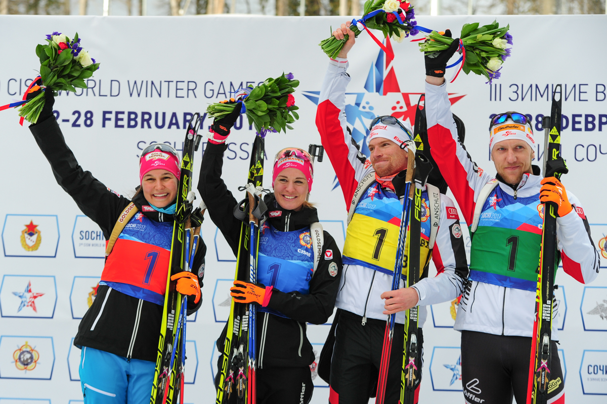 Команда Австрии первое место. Биатлон, смешанная эстафета. III Зимние Всемирные Военные Игры. Лыжно-биатлонный комплекс «Лаура», Сочи, Россия. 25 февраля 2017. Фото Alexander Fedorov/CISM2017Team Austria first place. Biathlon, Mixed Relay. 3rd CISM World Winter Games. Laura Cross-Country Ski&Biathlon Centre, Sochi, Russian Federation. February 25, 2017. Photo by Alexander Fedorov/CISM2017